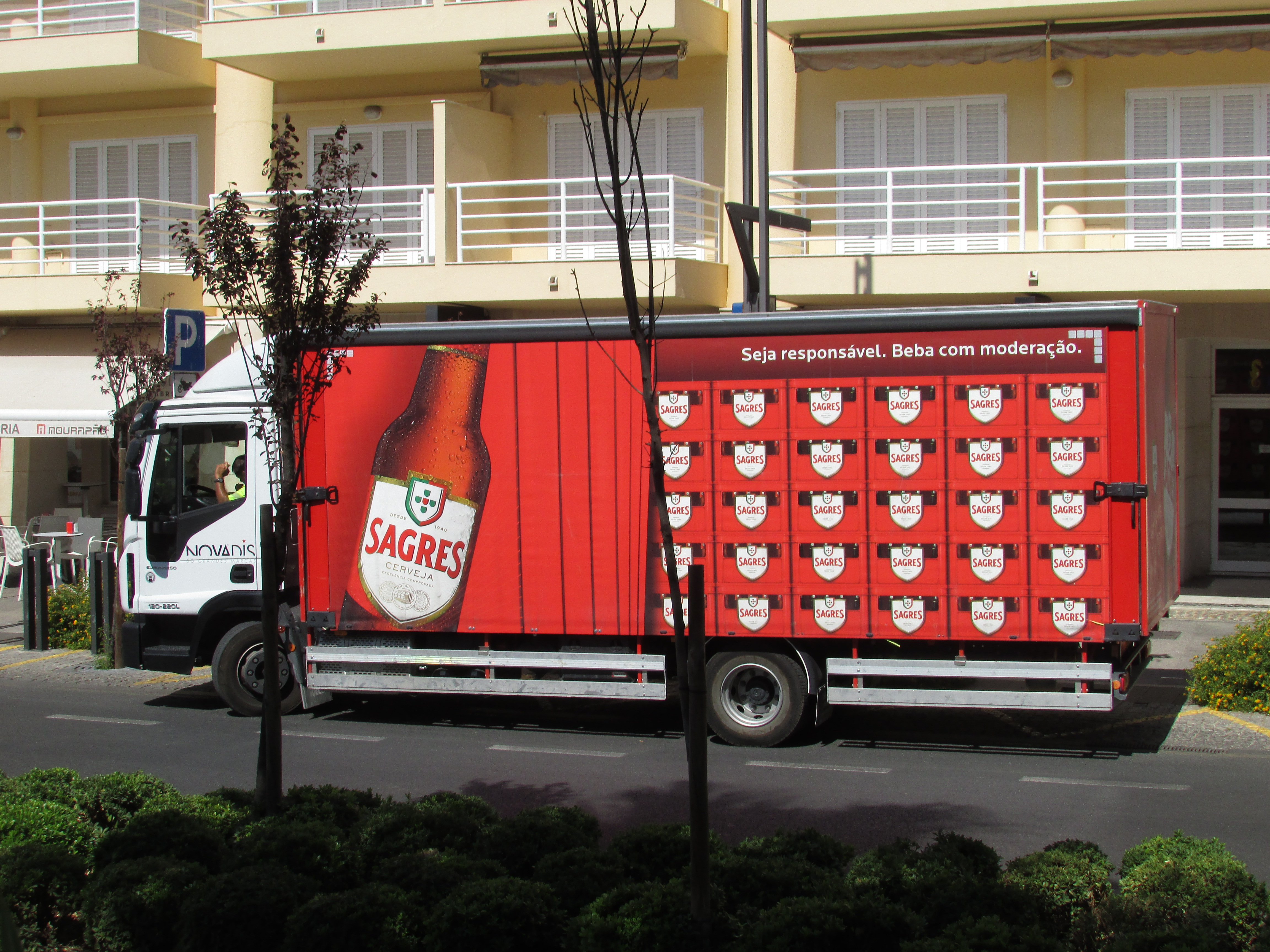 A Sagres Brewery truck located in Avenida da Marina in the resort of Vilamoura, Algarve, Portugal.